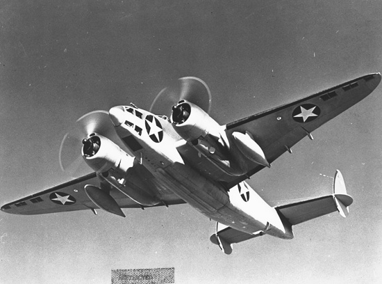 Lockheed PV-1 "Ventura" patrol bomber.